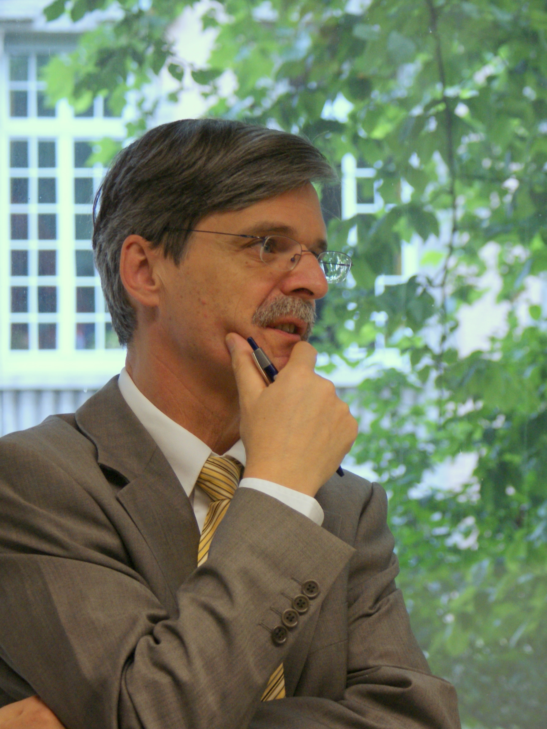 Bernd Engler, Rektor of the University of Tübingen